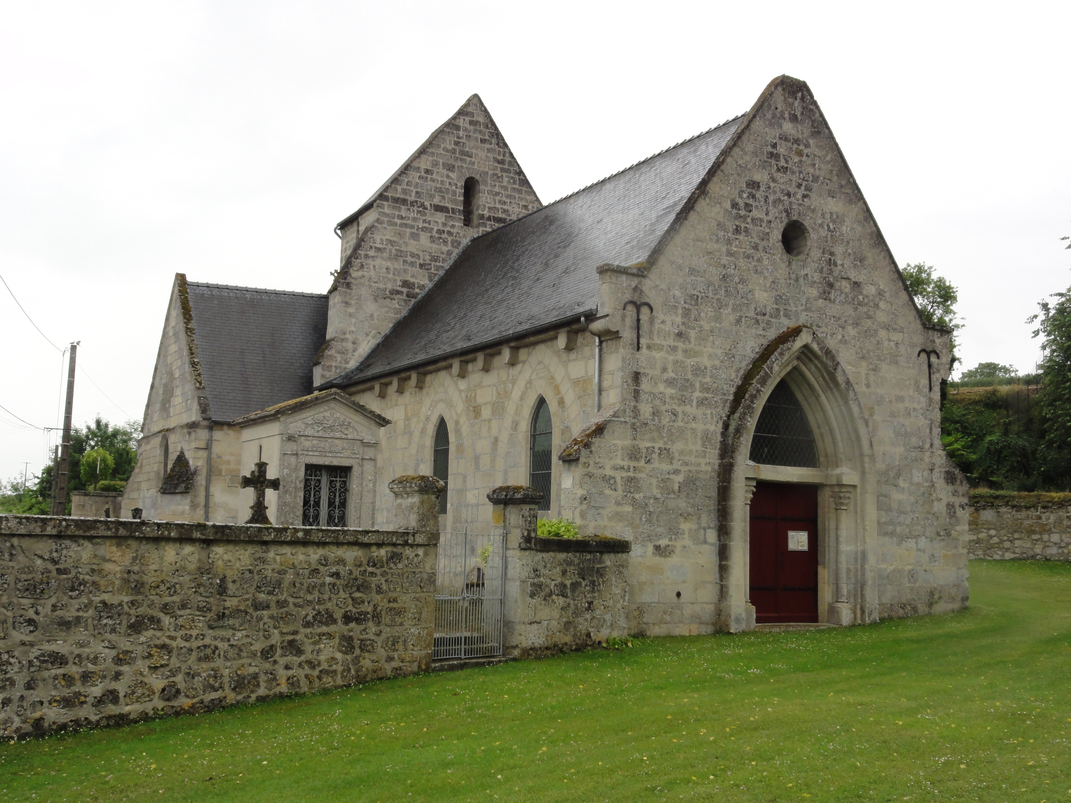 Bieuxy (Aisne) église